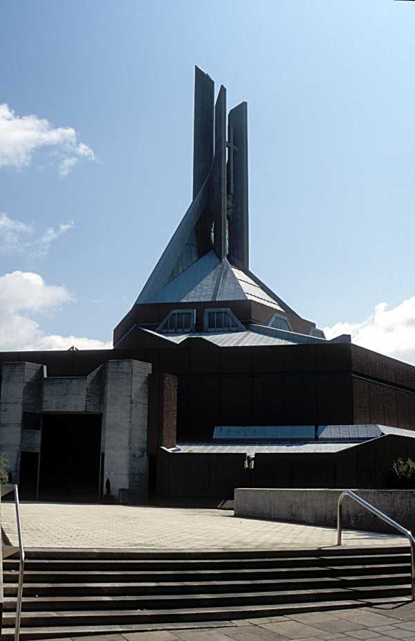 Clifton Cathedral in Clifton, Bristol. This is the view from Worcester Road on the north side of the Cathedral. Photograph taken by Rob Brewer on 23 July 2004. thumb|left|click for a detailed view of the western side of the spire